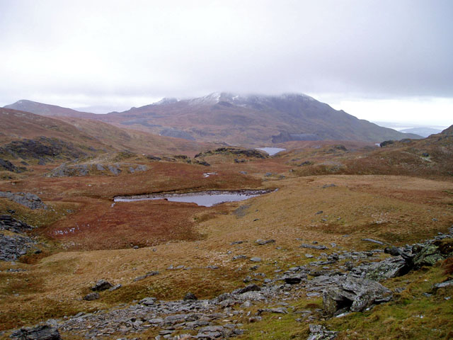 Head of Cwm Corsiog A rather complex area of lumpy, slatey ground. Looking towards Moelwyn Mawr with its summit in the cloud.